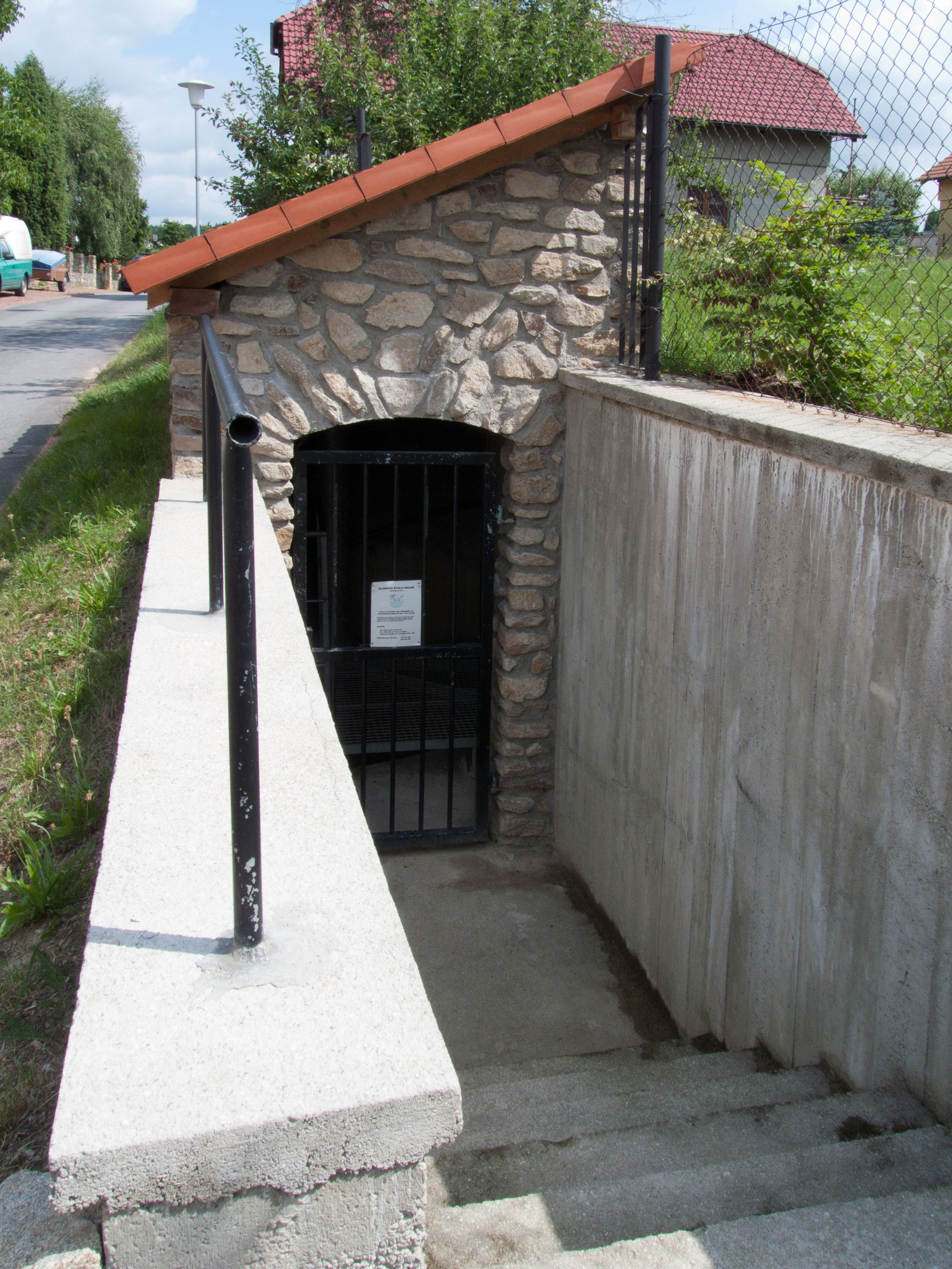 New entrance to the Elias adit in the village of Úsilné, České Budějovice District, Czech Republic. Česky: Nově vybudovaný vstup do Eliášovy štoly v obci Úsilné v okrese České Budějovice.